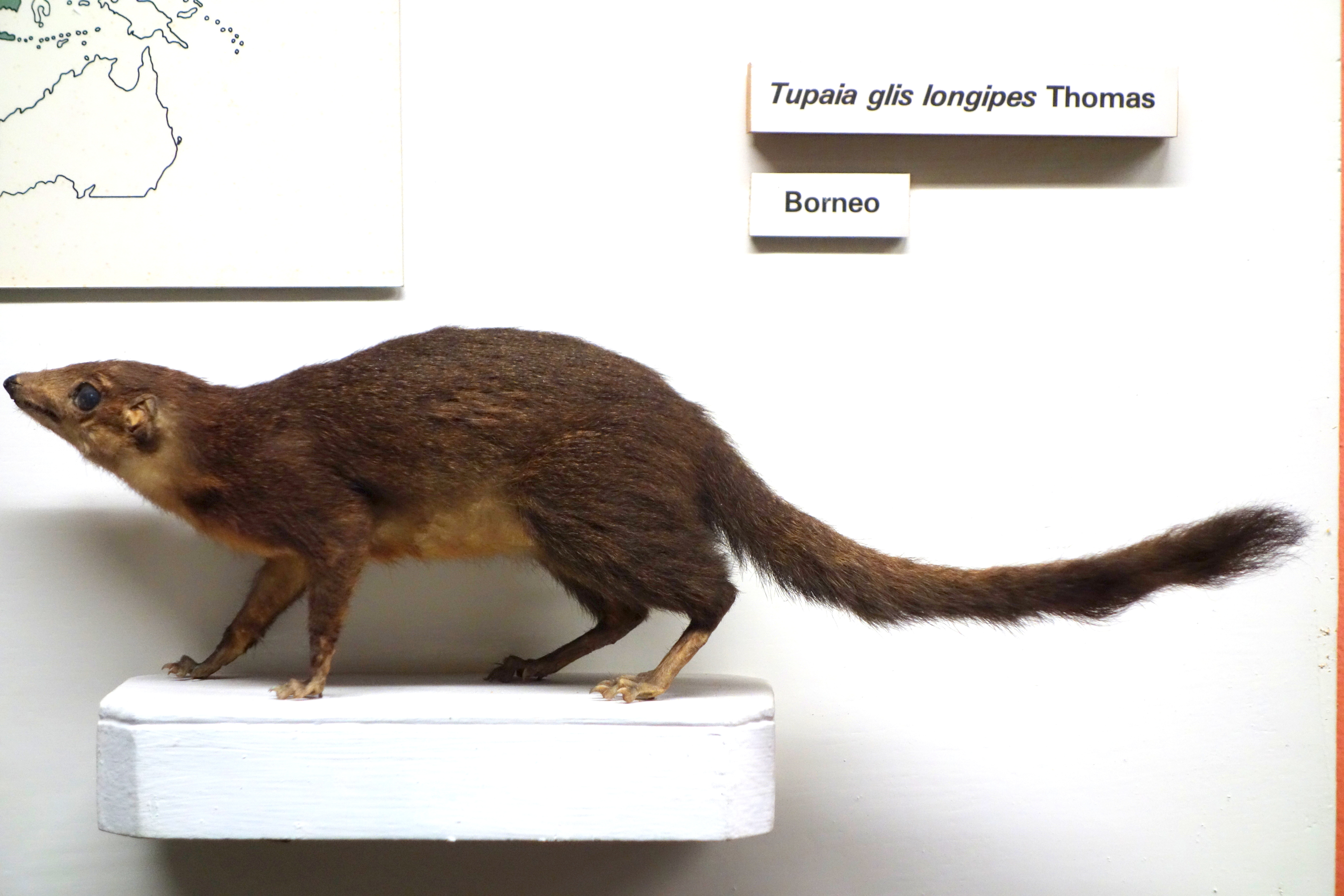 Exhibit in the Museo Civico di Storia Naturale di Genova, Via Brigata Liguria, 9, 16121, Genoa, Italy.